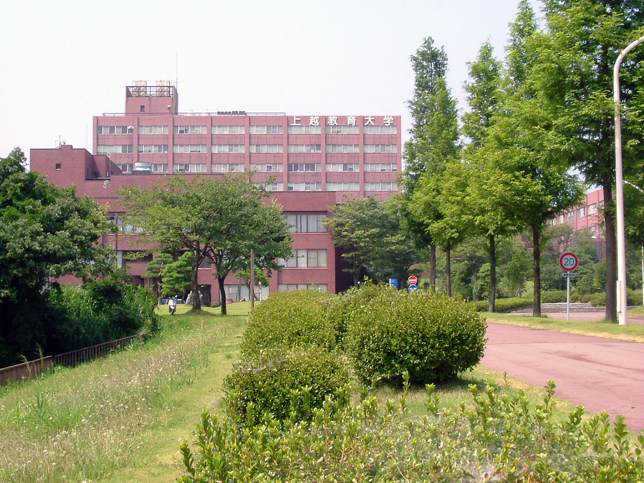 A photograph of campus of Joetsu University of Education, in Joetsu-shi, Niigata-ken, Japan.